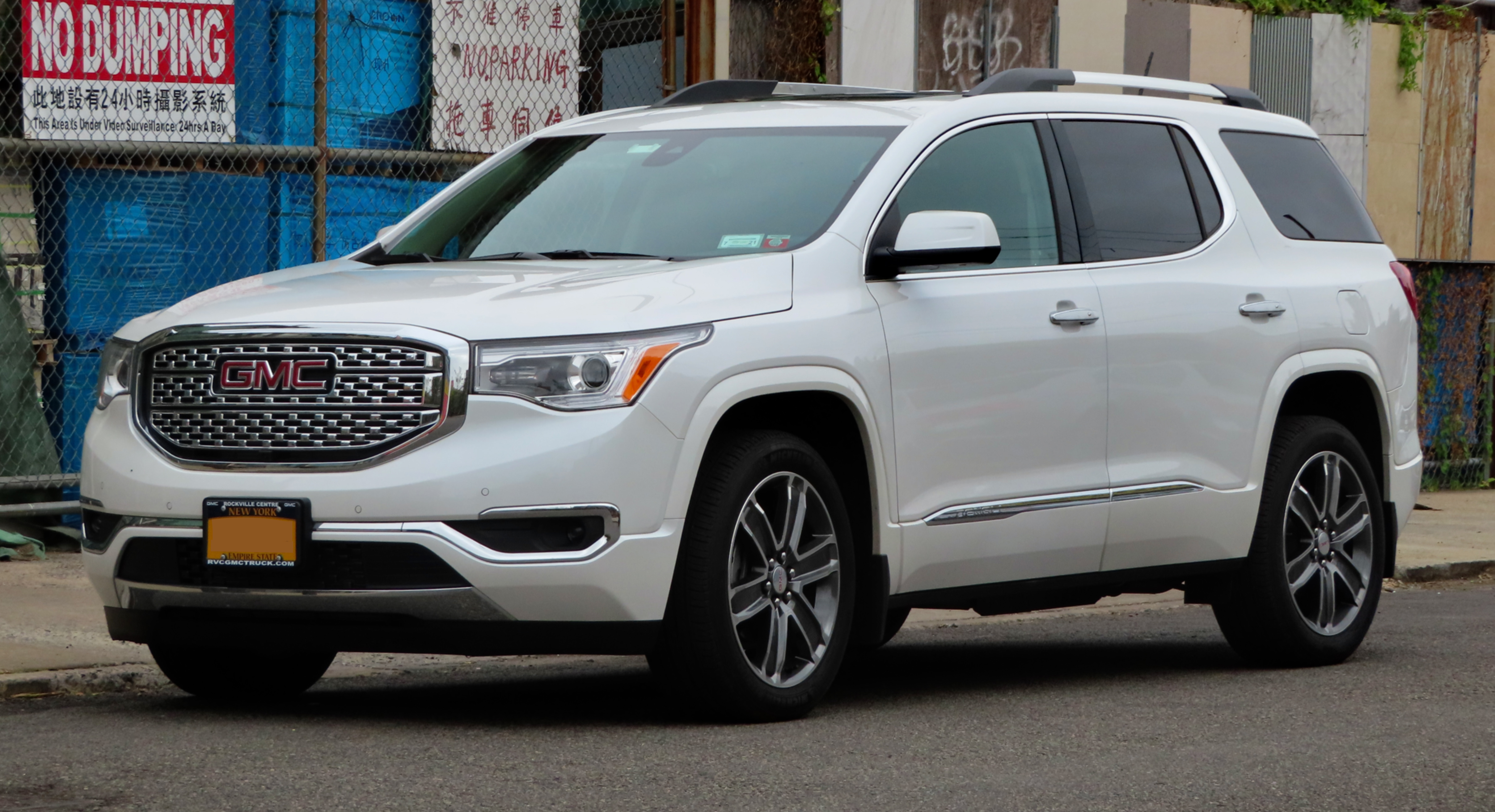 A 2019 GMC Acadia Denali photographed in Flushing, Queens, New York, USA